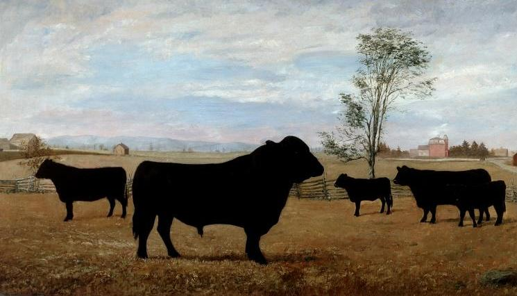 Painting, The Herd of Aberdeen Angus Owned by Hon. J. H. Pope, M. P. of Cookshire, Que., Frederick Charles Gordon, 1883, Oil on canvas, 78.9 x 137.6 cm